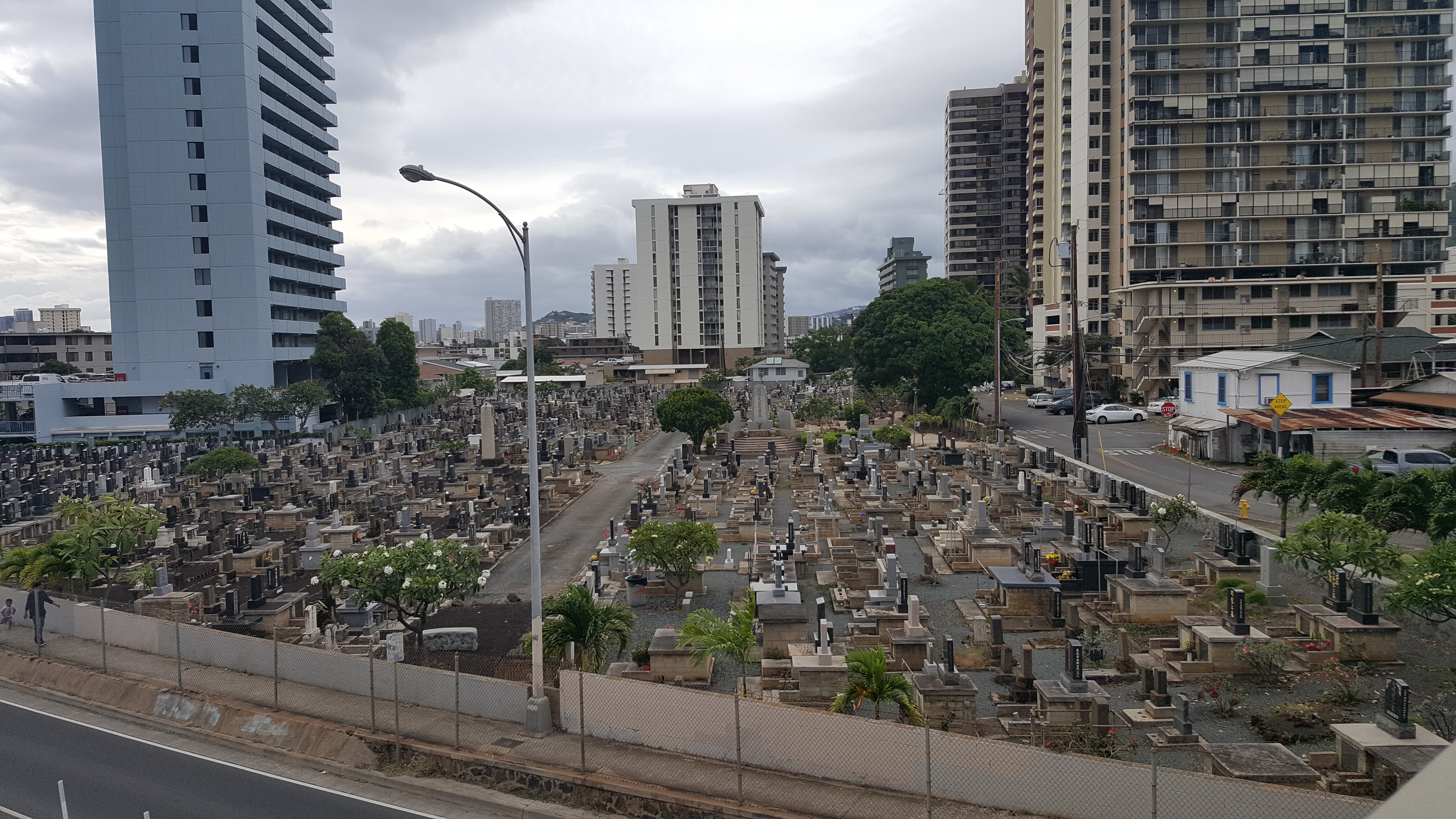 Mo'ili'ili Japanese Cemetery. Taken from a pedestrian bridge over Kapiolani Blvd. Moiliili, Hawaii